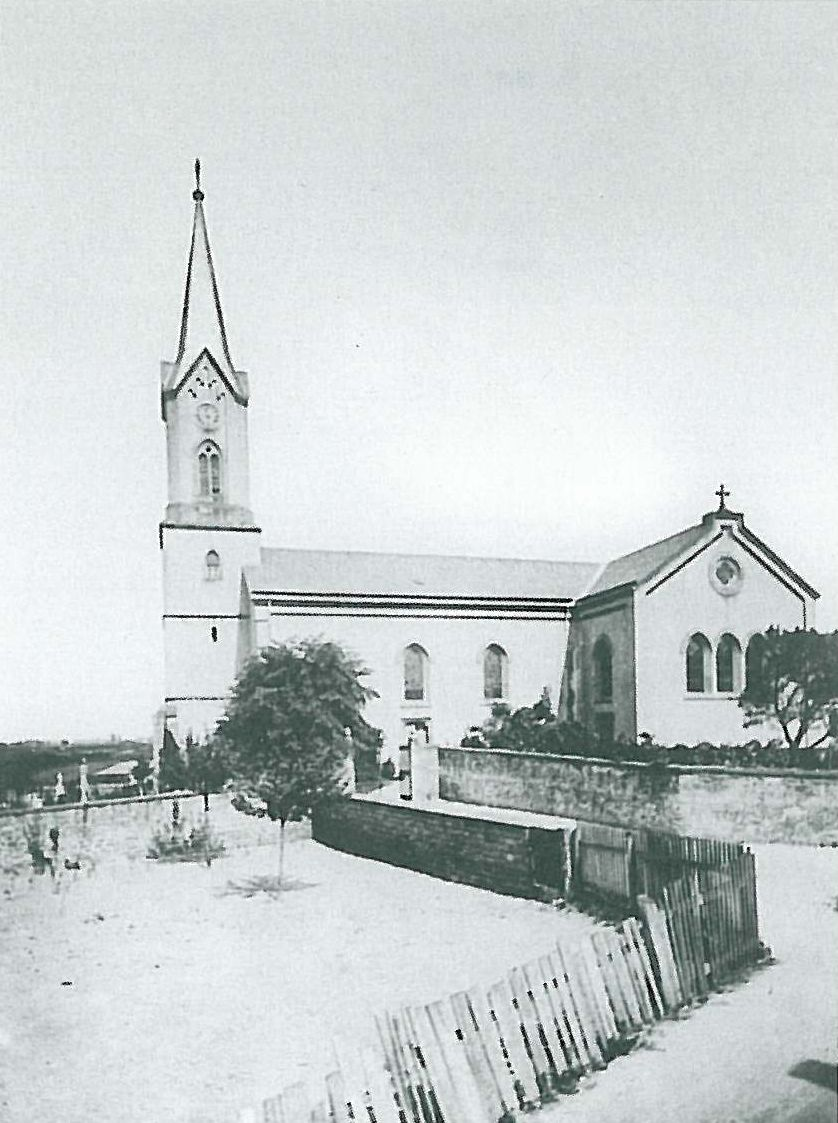 Historic photography